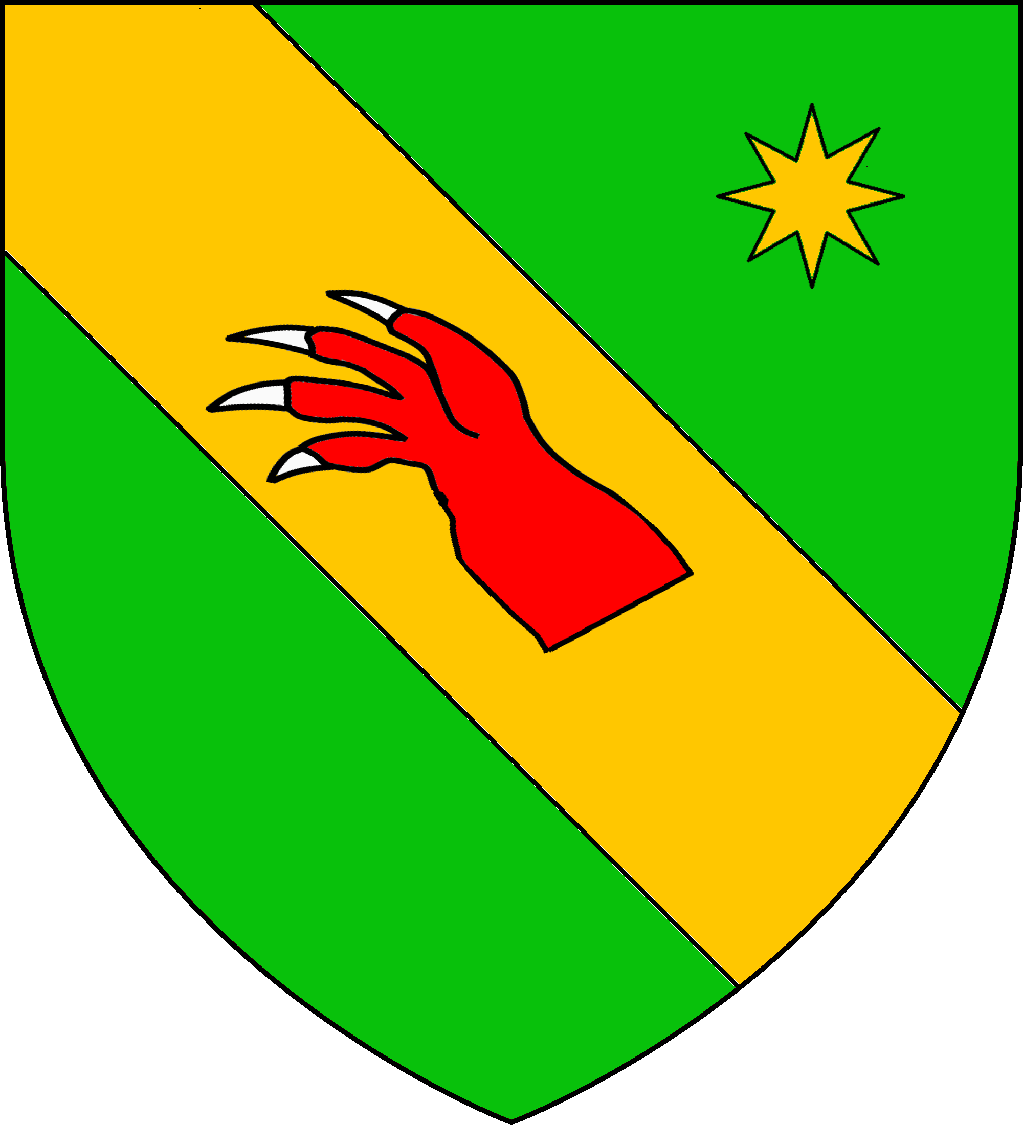 Escudo de armas Especiale (Stemma dei Speciale)